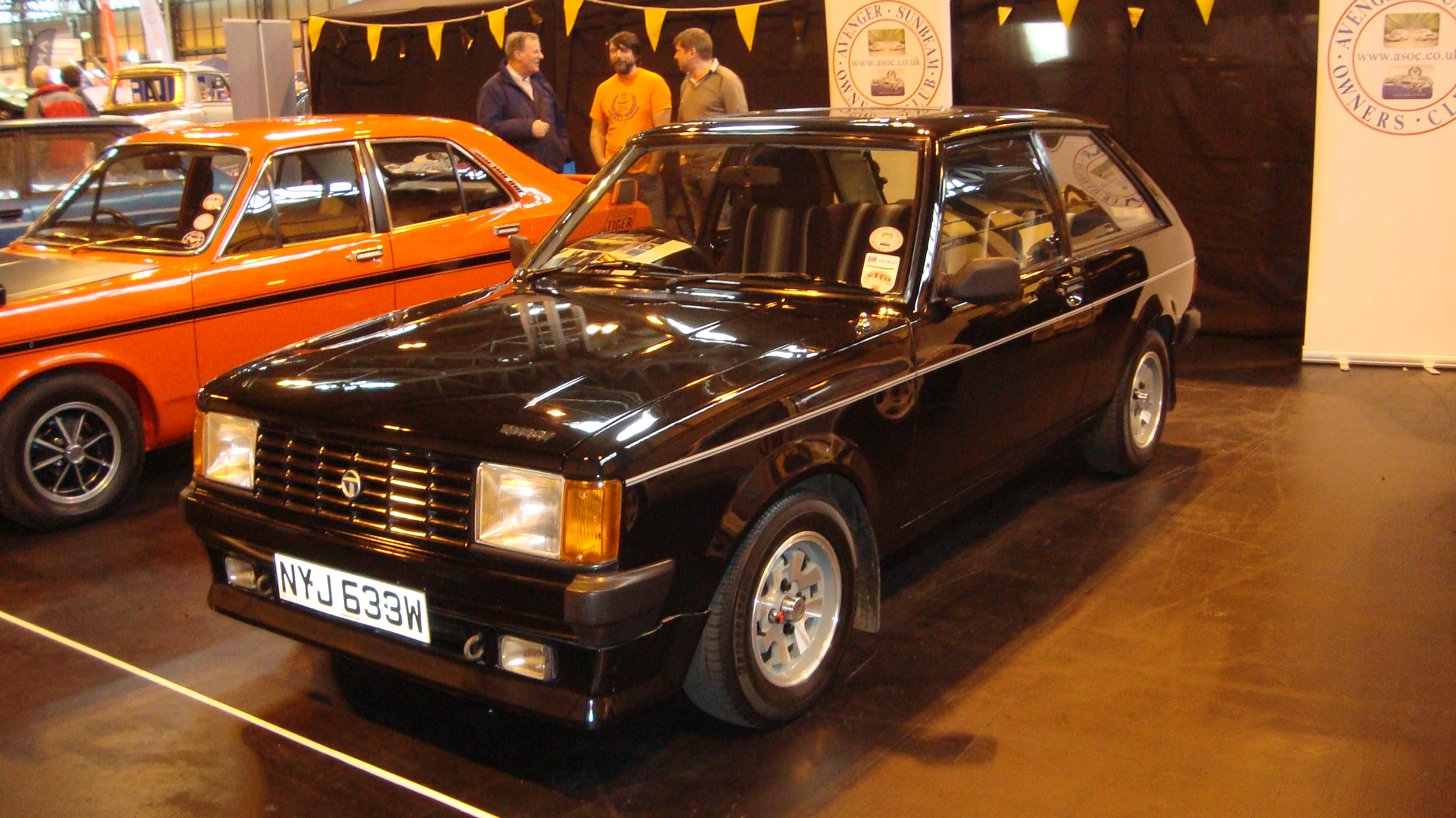 1981 Talbot Sunbeam TI